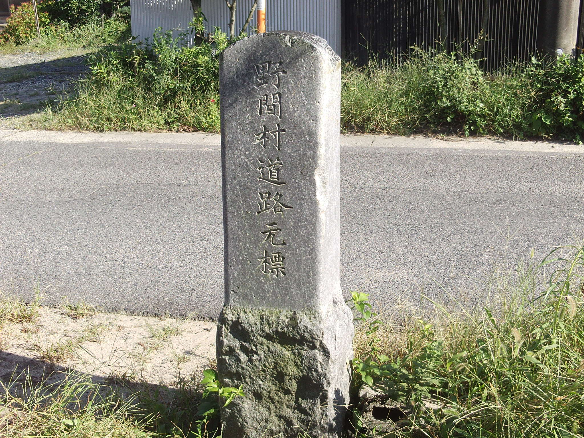 Kilometre zero of Noma village. (Noma village, Chita-gun, Aichi.)